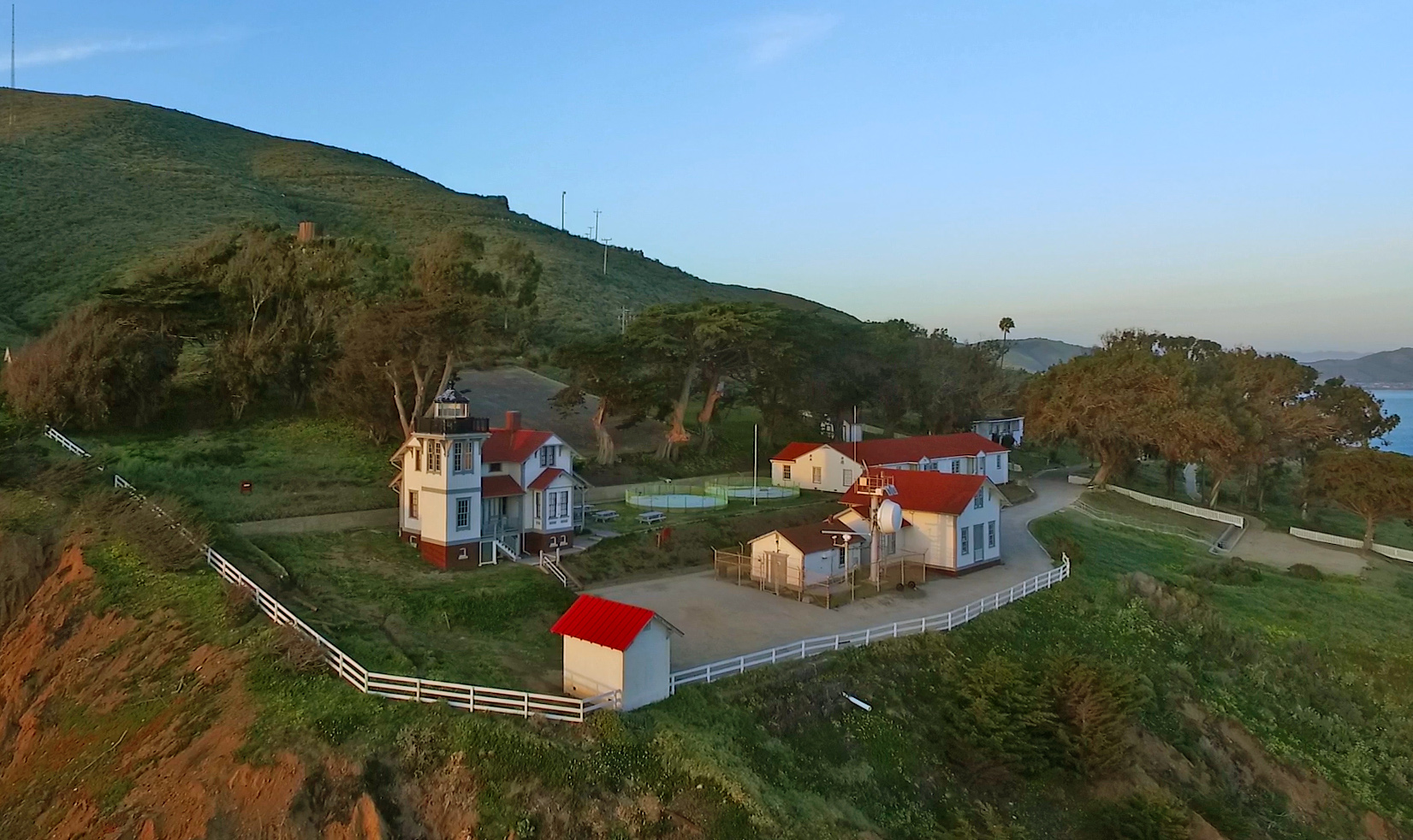 An aerial shot of the San Luis Obispo Lighthouse on March 27, 2016.